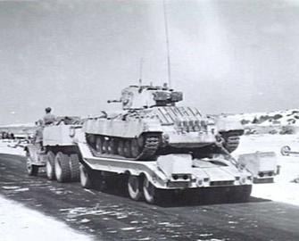 Valentine tank, being transported to the front line on a trailer